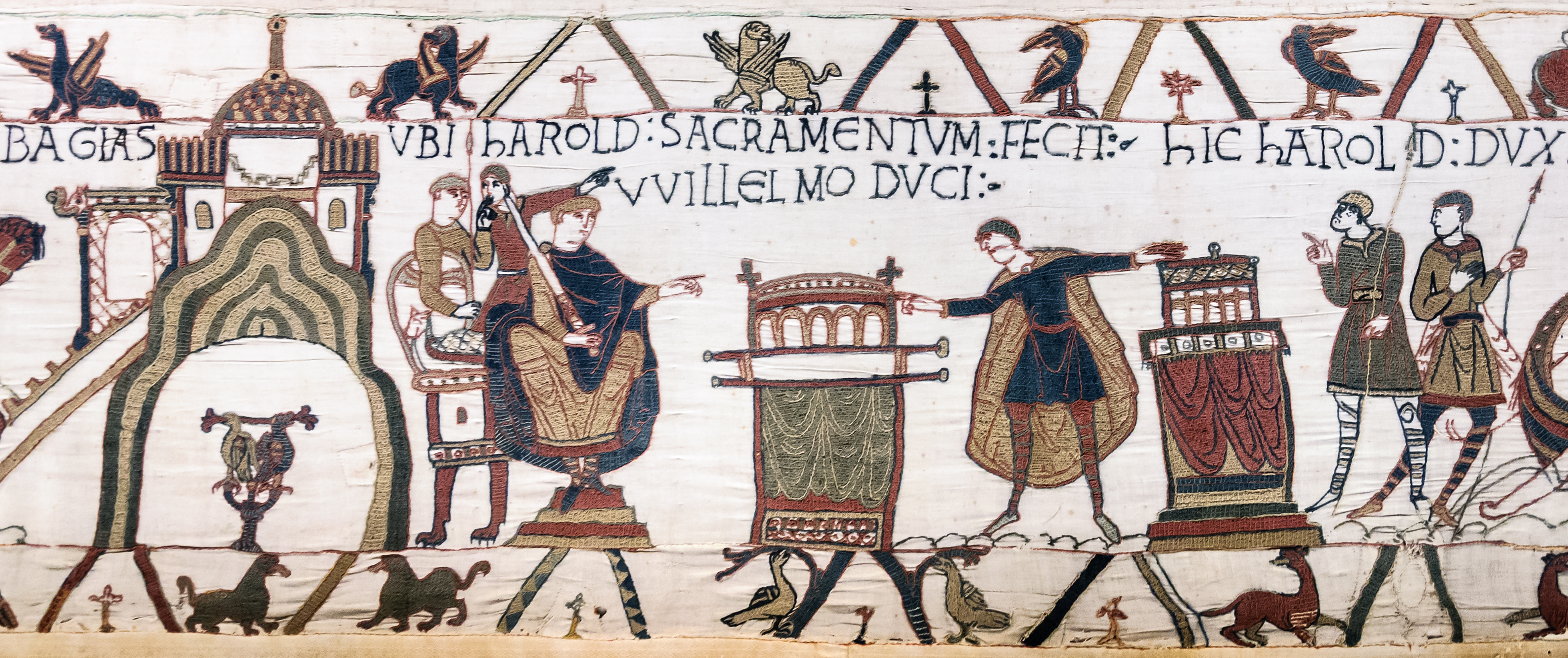 Bayeux Tapestry - Scene 23: Harold swearing oath on holy relics to William, Duke of Normandy